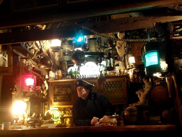 Seamen Club "Zejman" Gdańsk Poland